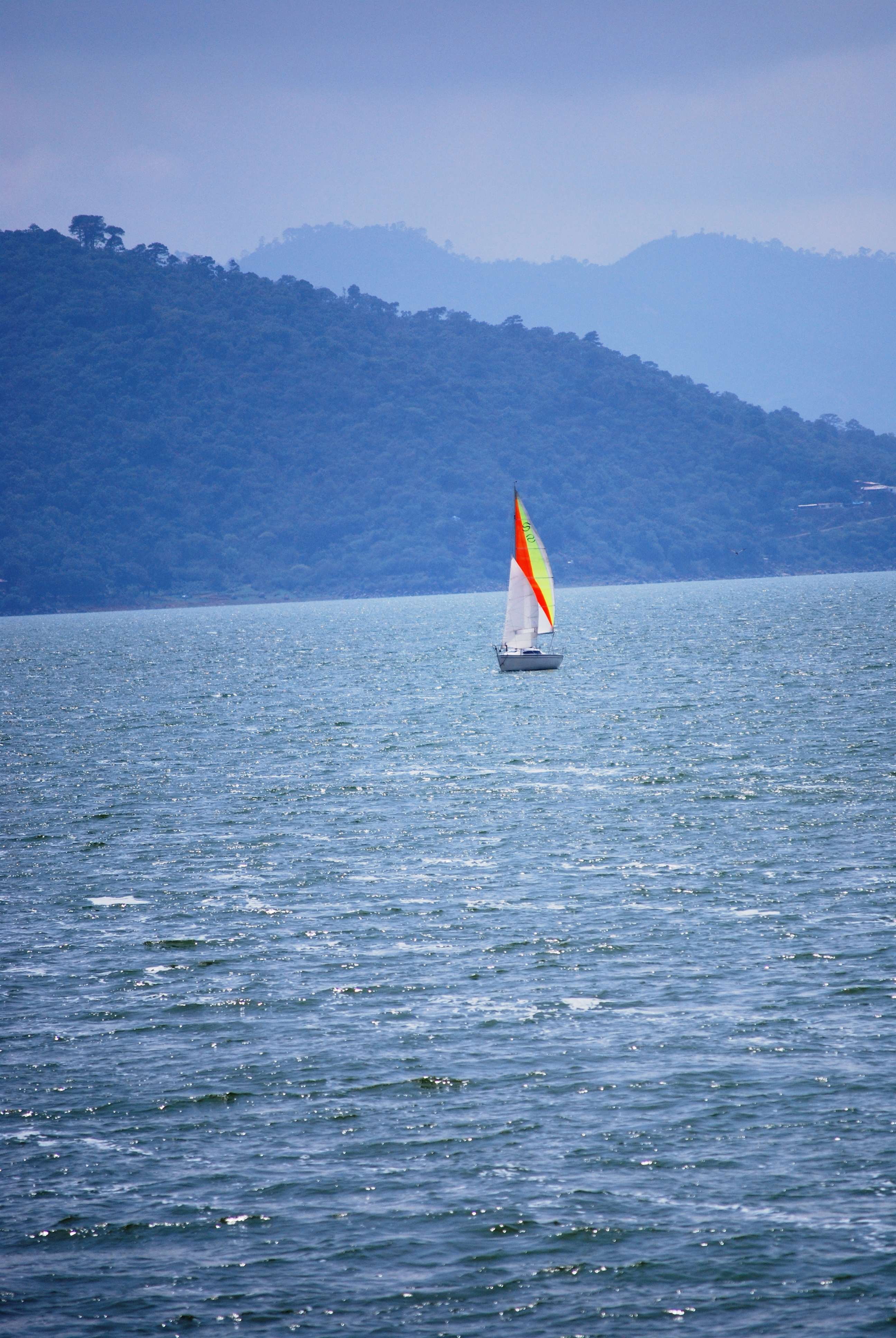 Sailboat on Valle de Bravo Lake in Valle de Bravo, Mexico